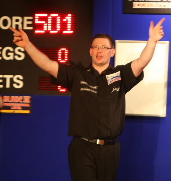 James Wade the darts player